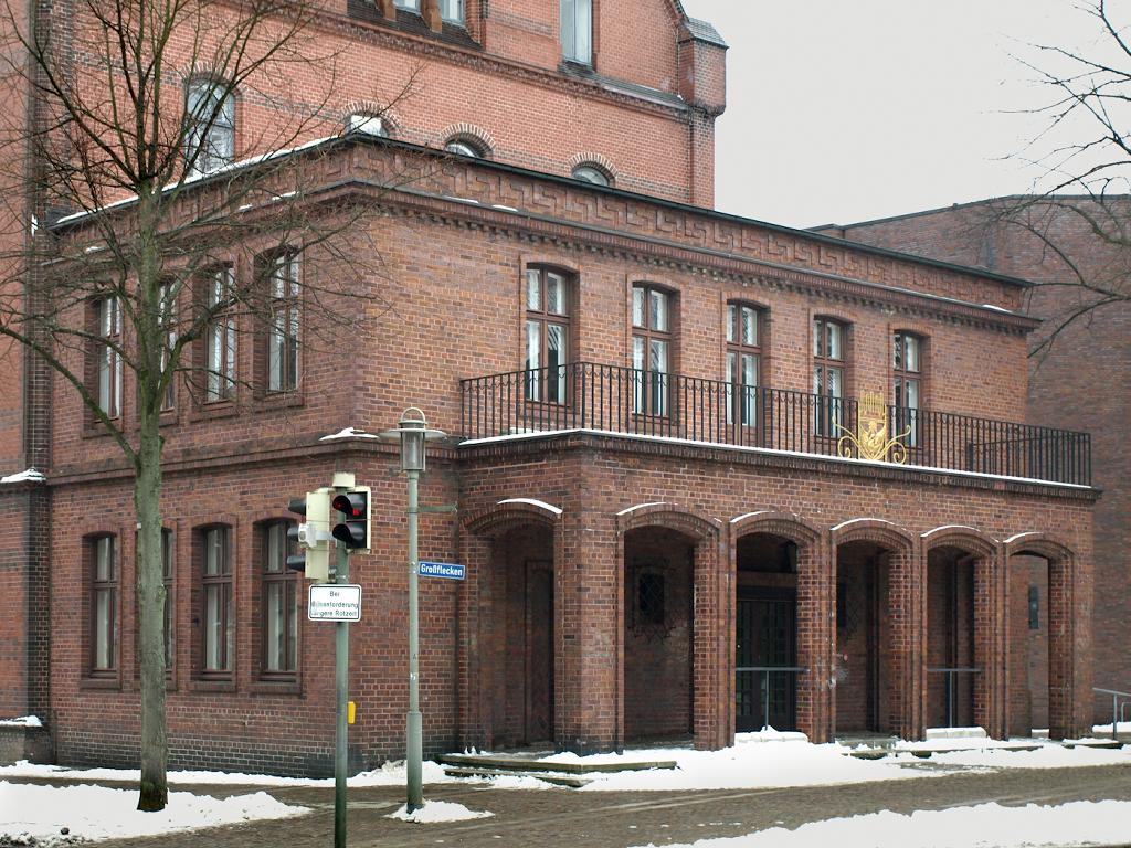 Neumünster - Schleswig-Holstein (Germany), Extension of the town hall, photo 2010